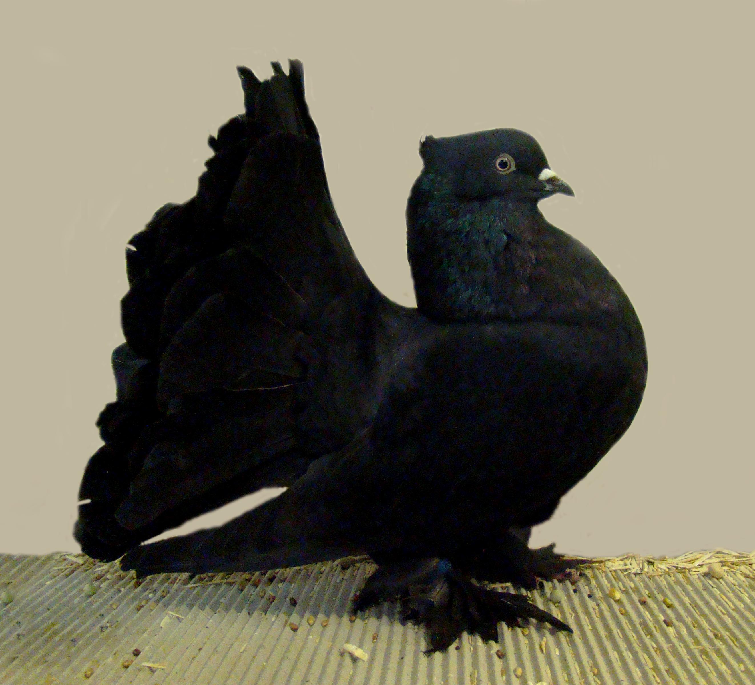 Indian Fantail (Black Self)